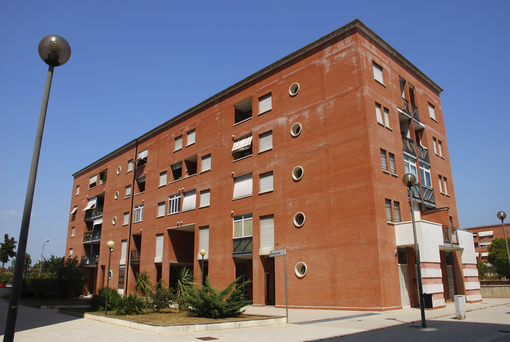 Cavallaccio RC10 Palace, Florence, Italy. Building.